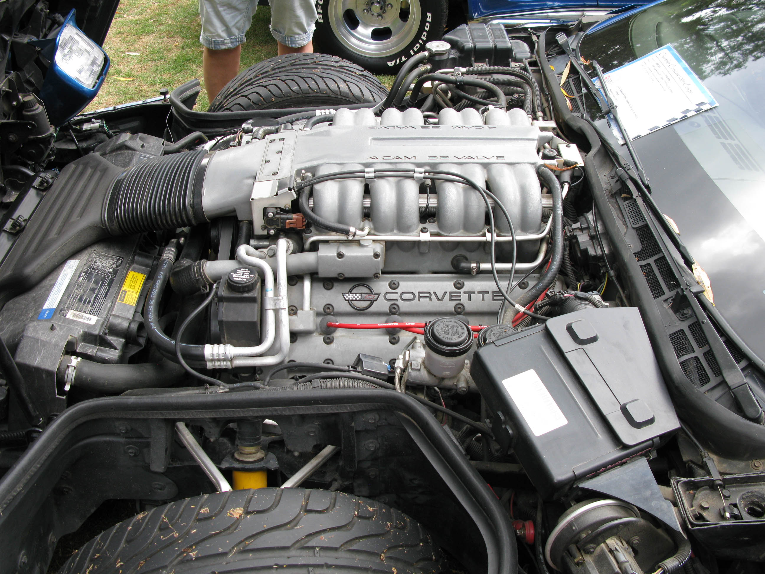 Chevrolet LT5 engine in a Corvette C4 ZR-1.